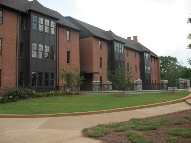 Lakeview Dorm South, Birmingham-Southern College